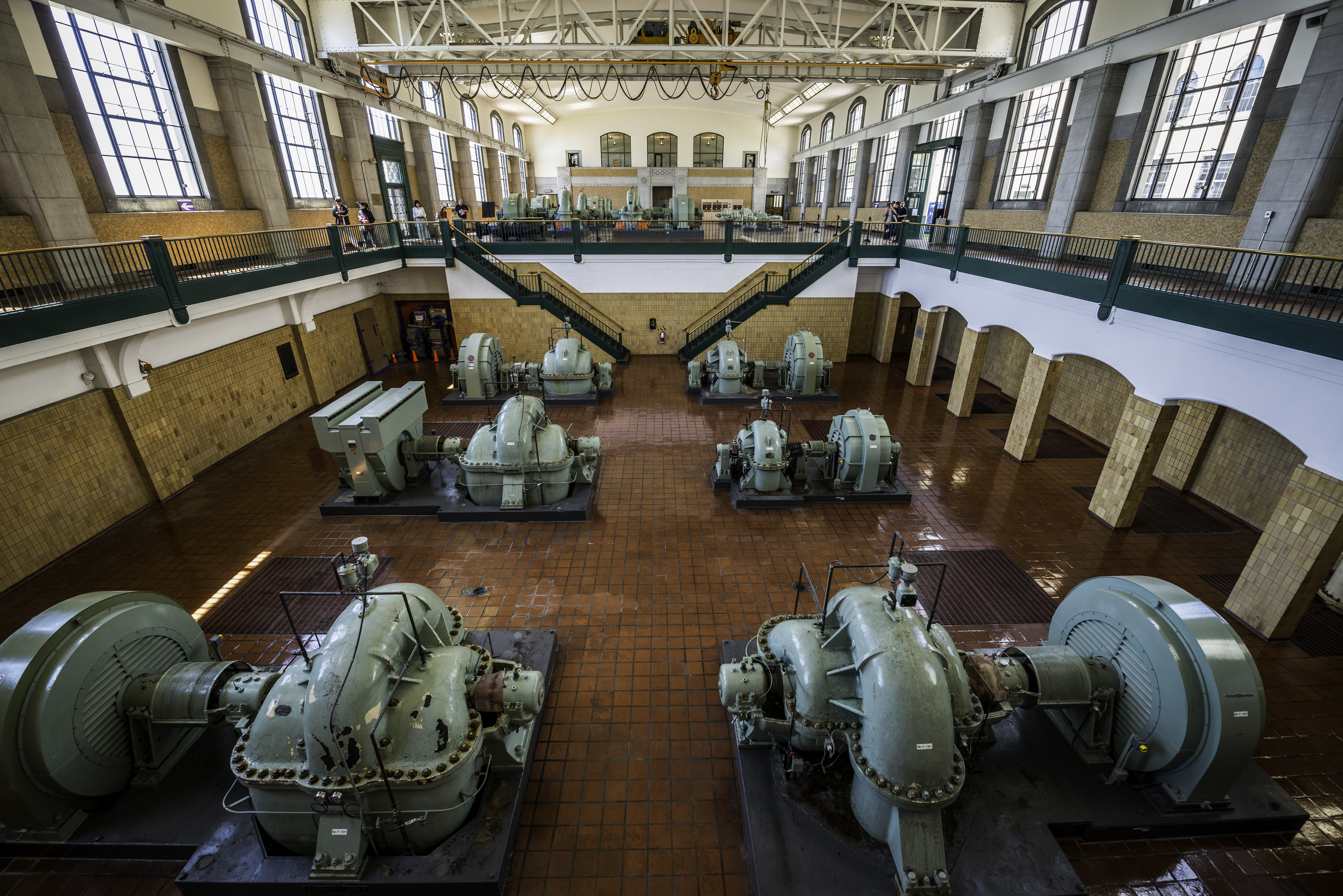 R.C. Harris Water Treatment Plant (12 of 14)